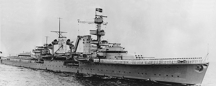 The German light cruiser Köln underway with rails manned, circa 1936. Note the heraldic shield mounted on her bow and the large flag flying from her foremast peak.